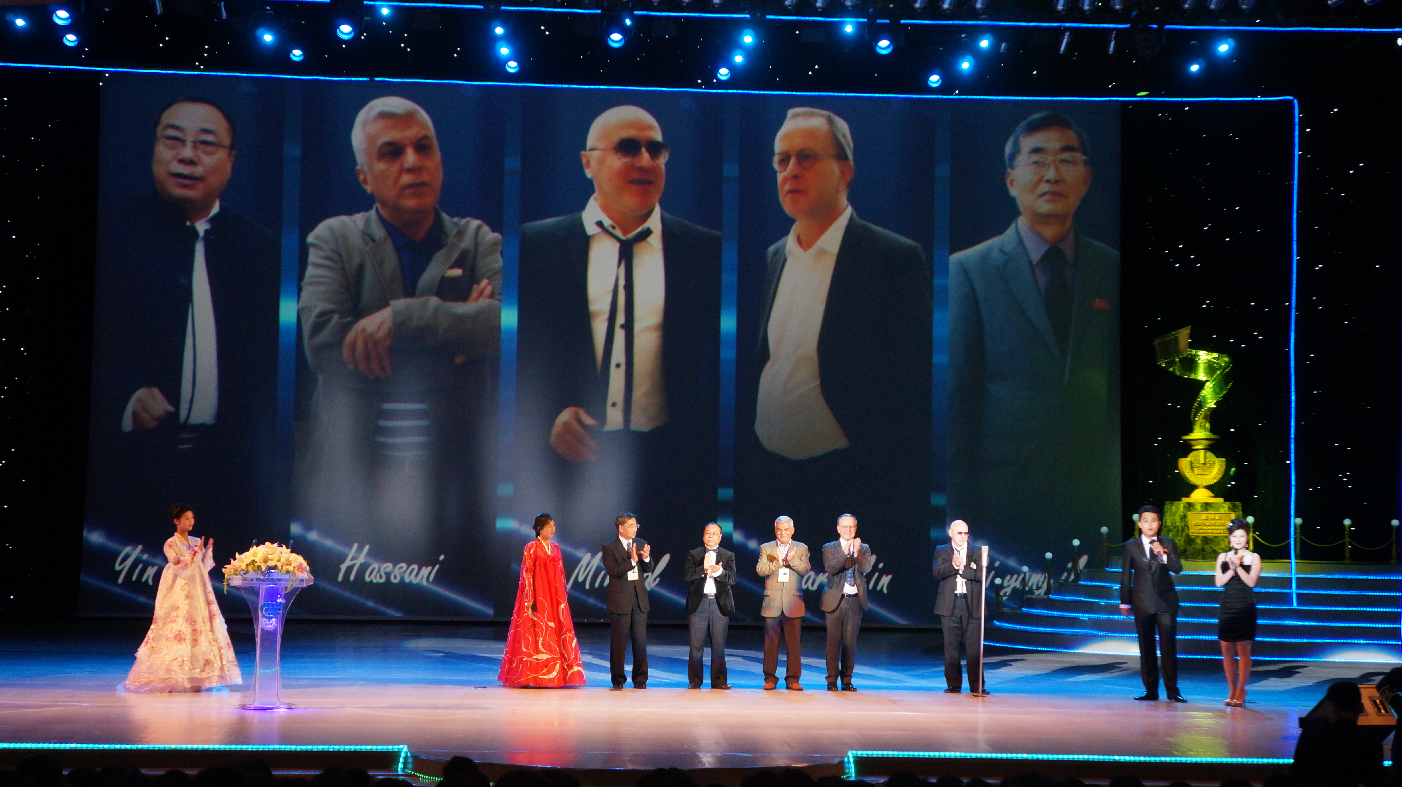 PIFF jury members both international and Korean